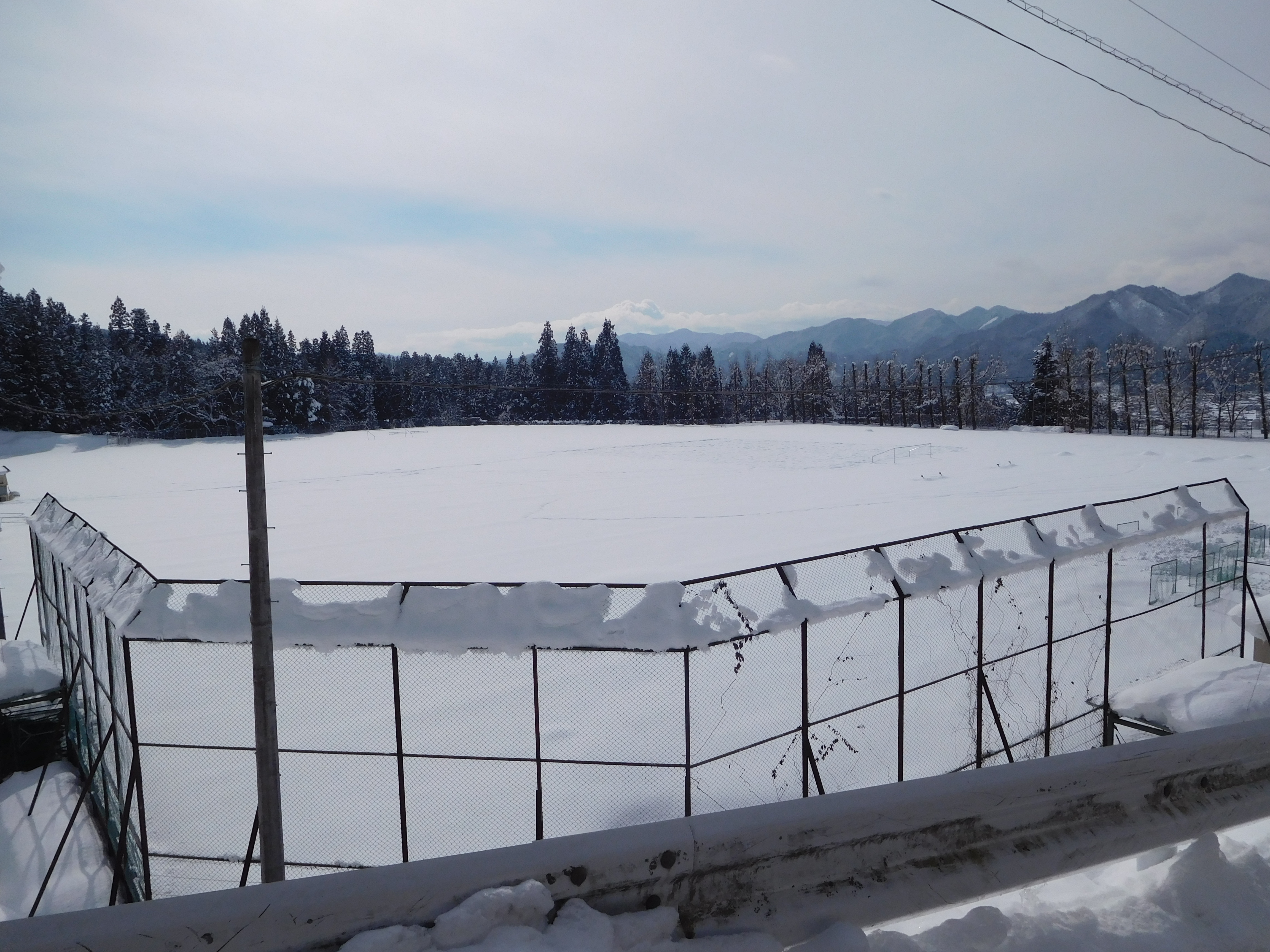 This is a school ground of Gifu prefectural Yoshiki high school in Hida, Gifu, Japan.